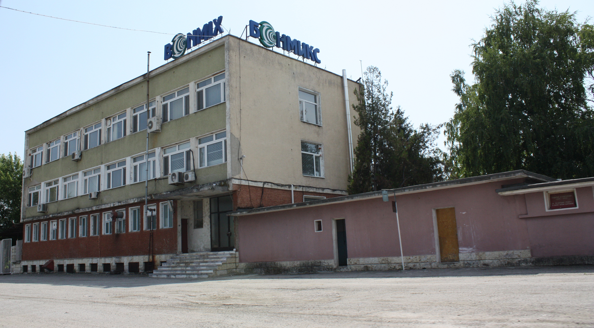 Bonmix company, Lovech, Bulgaria